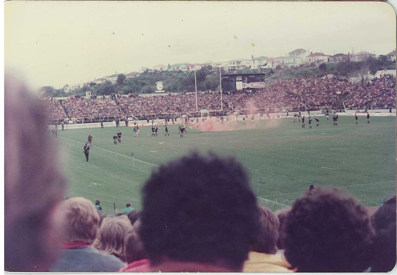 Smoke bomb on the field during the 1981 Springbok vs All Blacks rugby match.